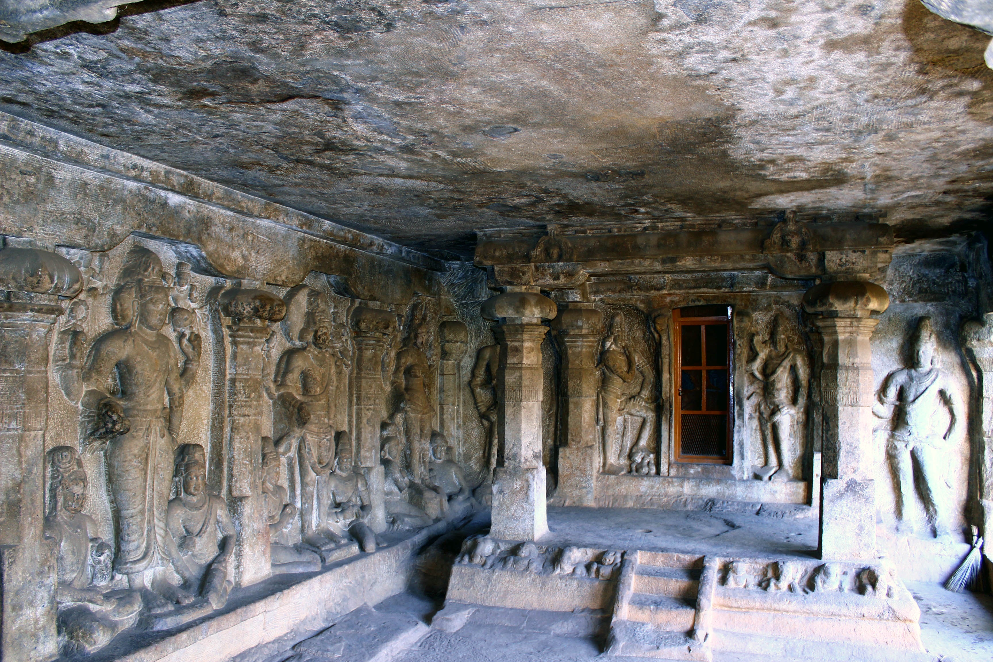 Rock Fort: Path Leading To The Upper Cave